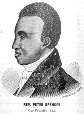 rev. peter spencer, founder of a.u.m.p. church